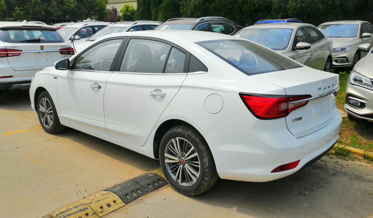 Roewe i5 photographed in Shanghai, China.